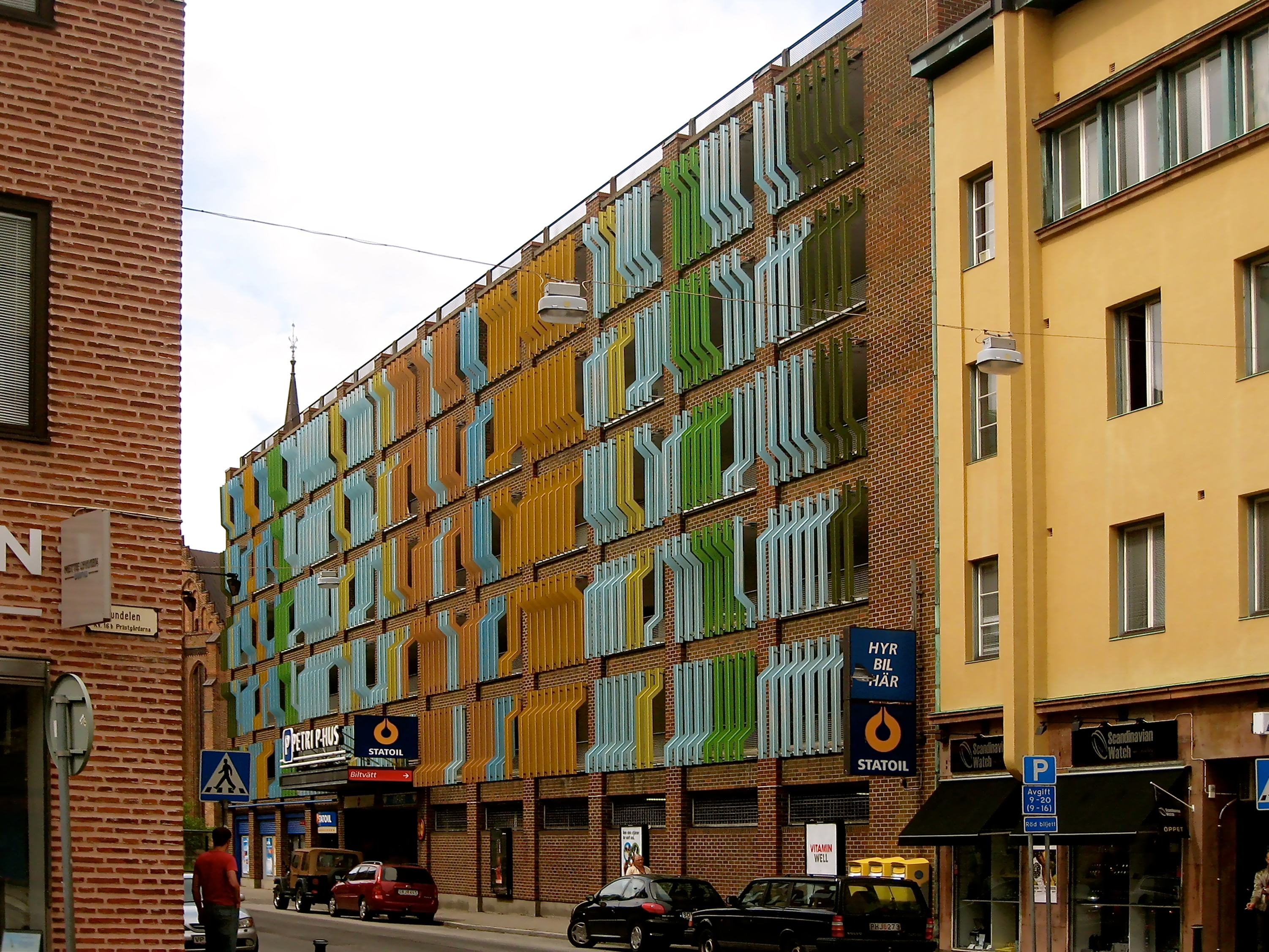 Caroli multi-storey car park including painted laminas à la 1970s op art. Designers: the artist duo Beck & Jung. Source about the art work: [1]